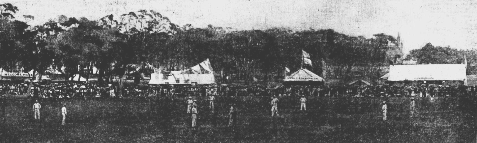 The above illustration depicts the match between the English team and a New South Wales Twenty-two, which was played on the Outer Domain on January 29, 30, and 31, 1862. The Englishmen are in the field.